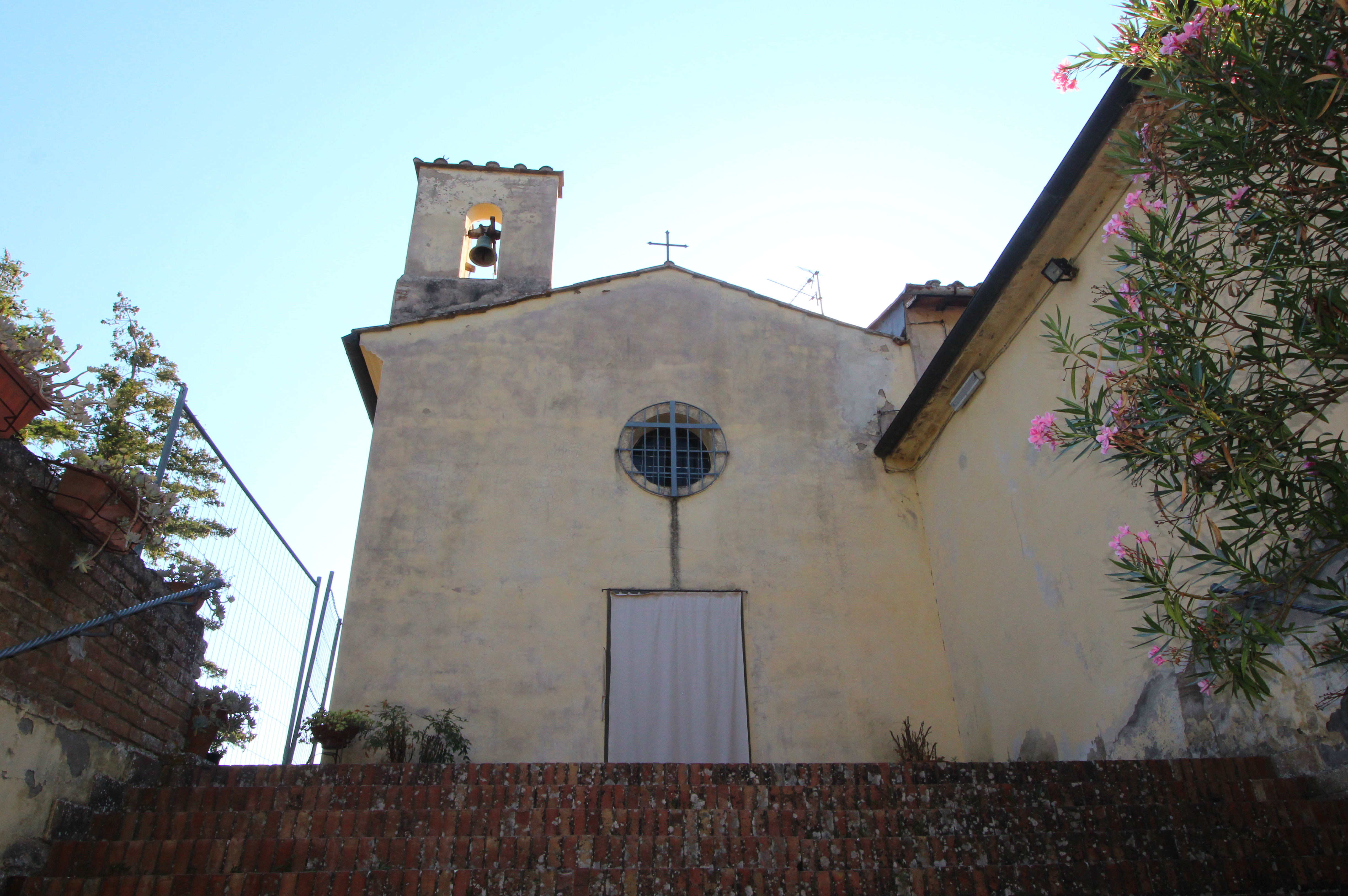 Church Sant'Andrea a Gavignalla, Gavignalla, territory of Gambassi Terme, Metropolitan City of Florence, Tuscany, Italy